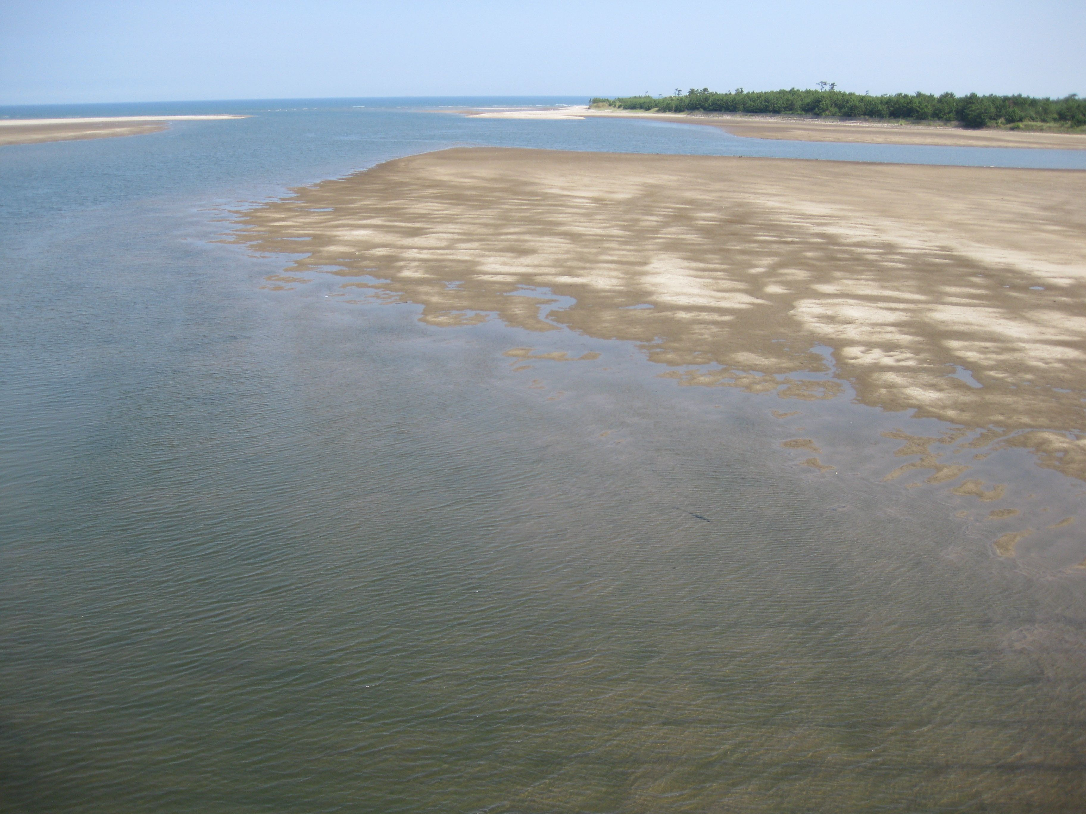 Mouth of Manose River in Kagoshima, Japan